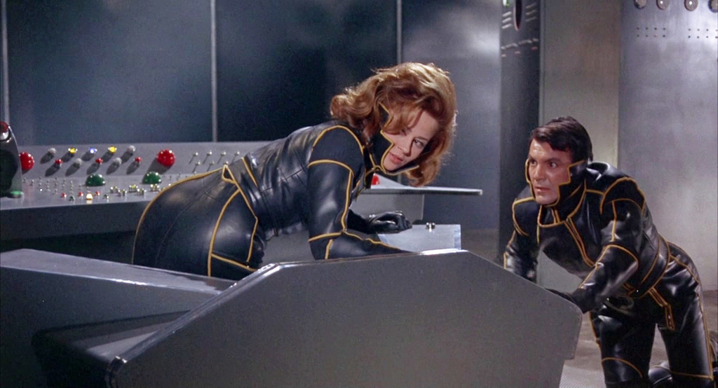 Norma Bengell - Planet of the Vampires (1965) as Sanya landing